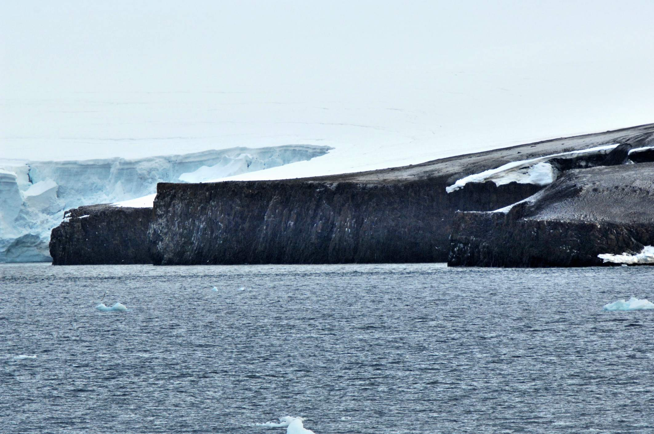 Cape Fligely (Northern tip of Rudolf Island, Franz Josef Archipelago, Russia; 81°50‘35’’N, 59°14‘22’’E)